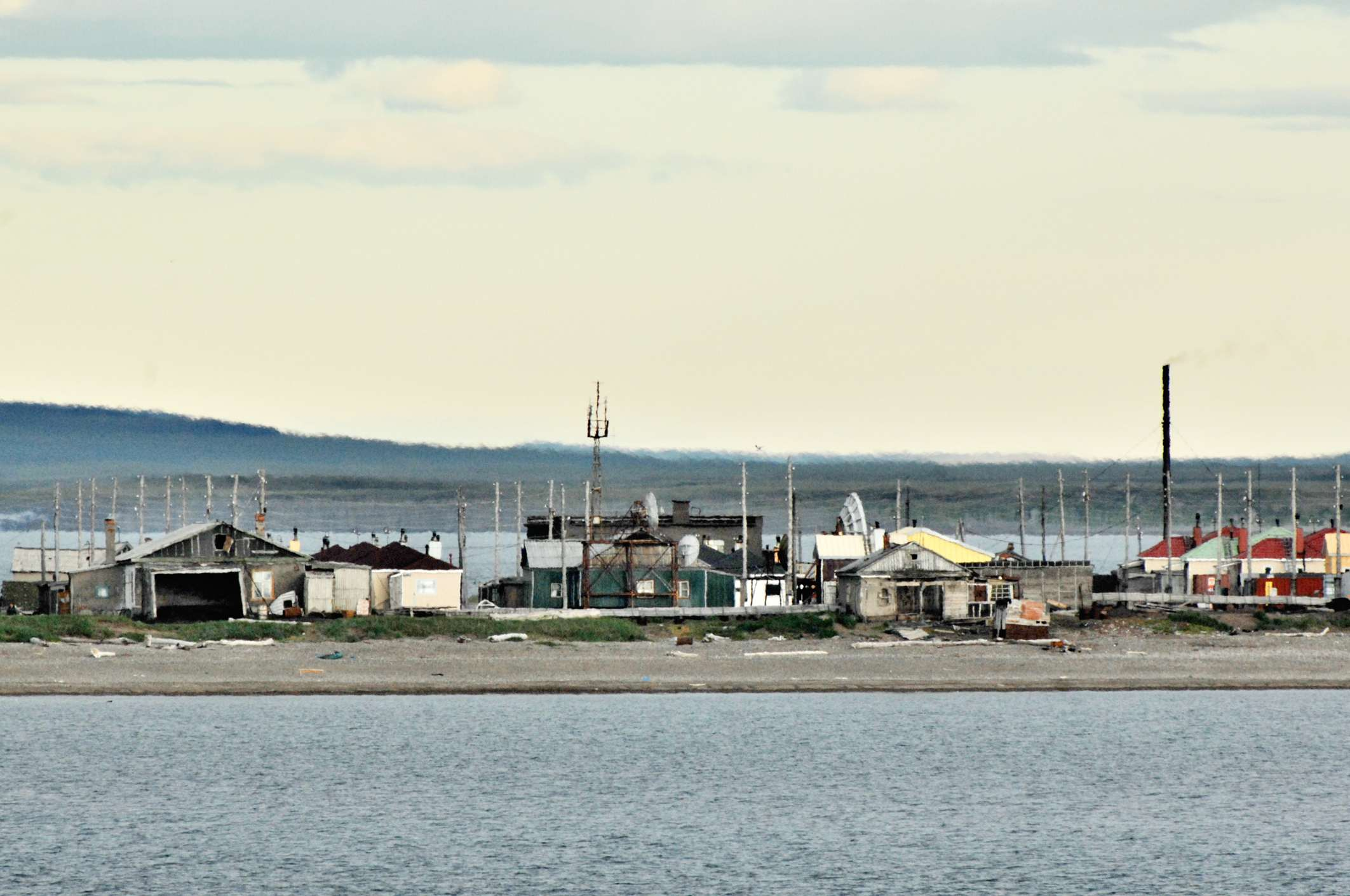 Vankarem Village (Chukchi Sea, Russia; 67°50‘35’’N, 175°50’9’’W)